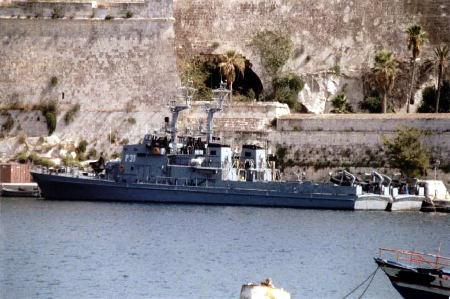 La Valletta (Malta): coastal patrol boat P-31 ex - Pasewalk G 423/GS 05 Transferred from Germany